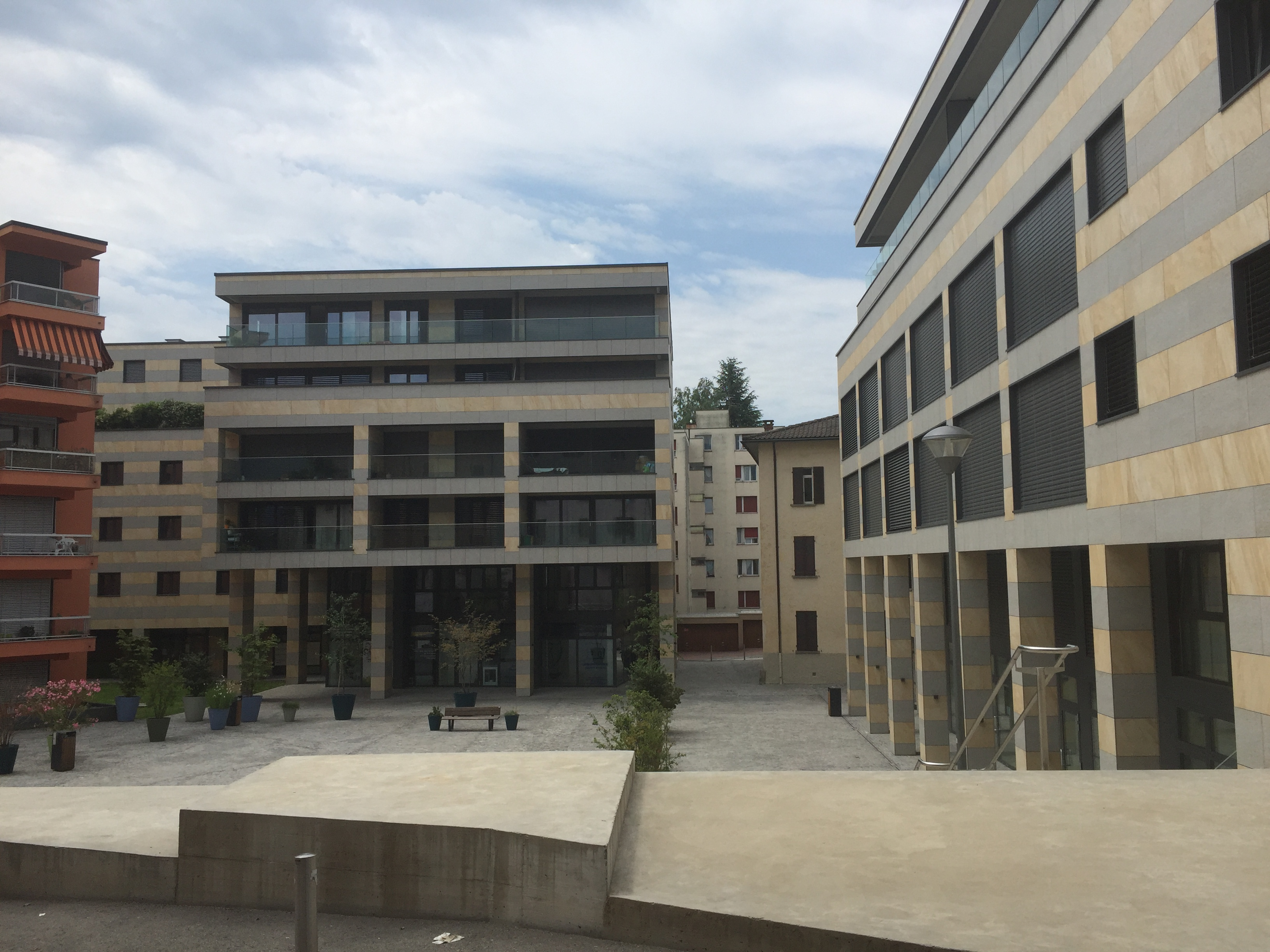 This place is near the site of the ancient church Santa Maria (Massagno)